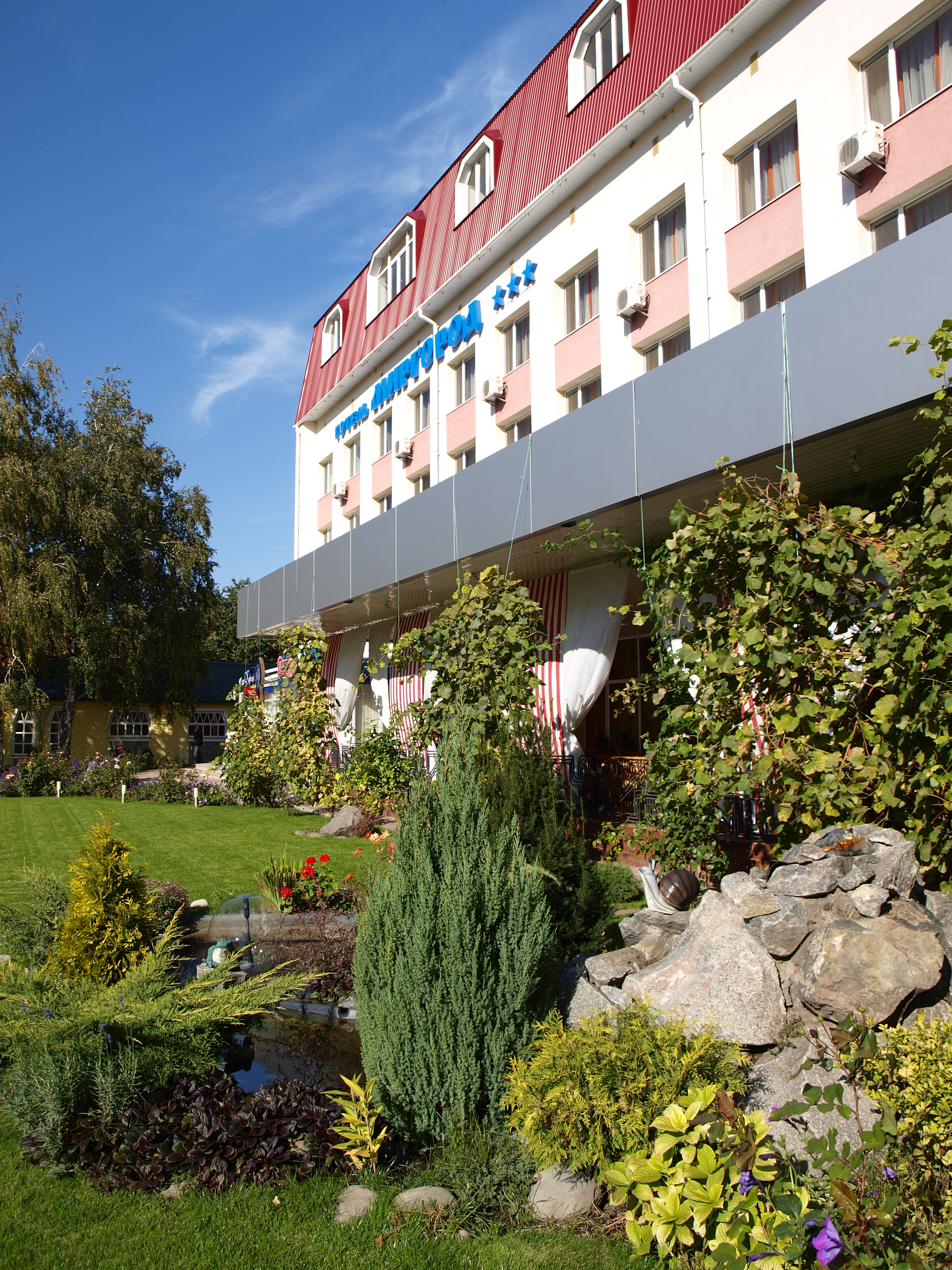 Myrhorod